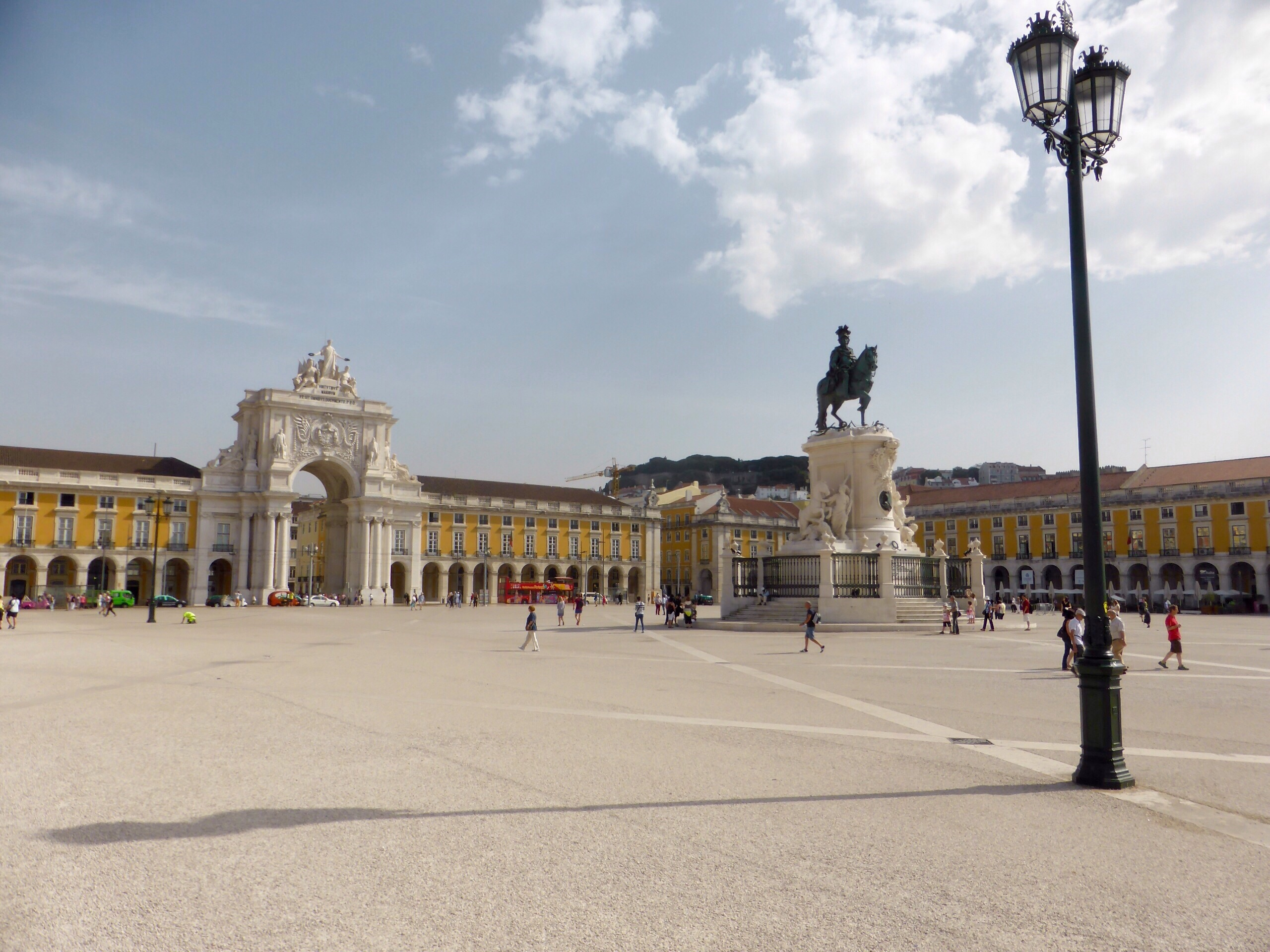 We had a week in Lisbon in early June. Had a good look around the city, a day trip to Sintra and a boat trip on the Tagus.